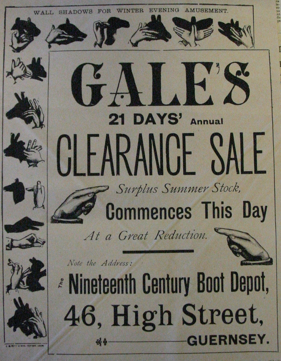 shadowgraphy, advertisement, Guernsey 1889 Nrf: Guernési, fiellet 1889